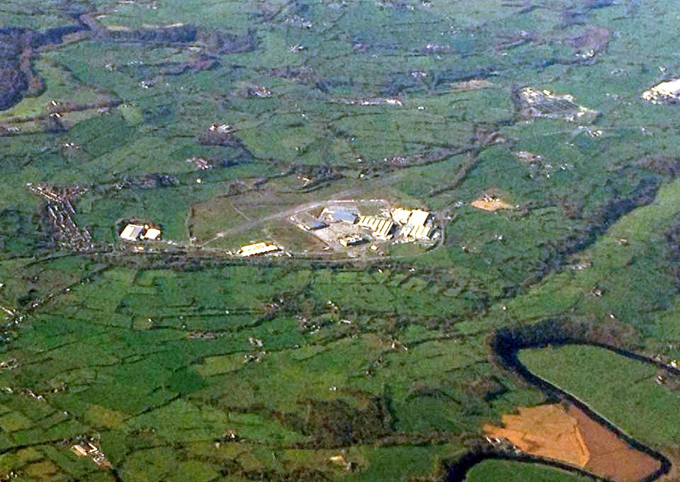 Aerial view of Samlesbury Aerodrome, Lancashire.